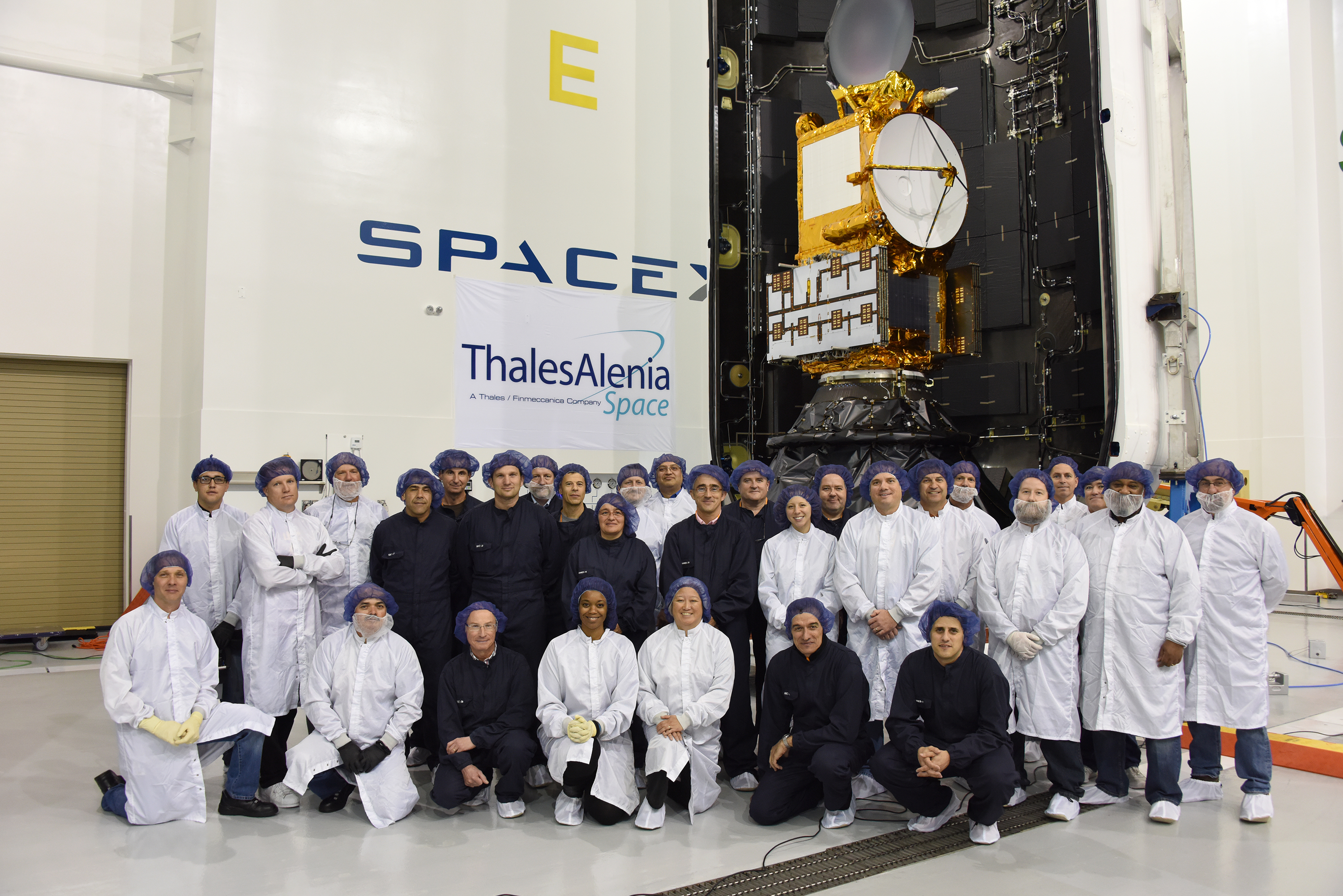 In the SpaceX Payload Processing Facility at Vandenberg Air Force Base in California, scientists and engineers who helped prepare the Jason-3 satellite for launch pose for a group photograph prior to the spacecraft begin encapsulated in its payload faring. Once the encapsulating is complete, Jason-3 will be mated to a SpaceX Falcon 9 rocket at Vandenberg's Space Launch Complex 4. Photo credit: NASA sous licence cc-by-sa-2.0.